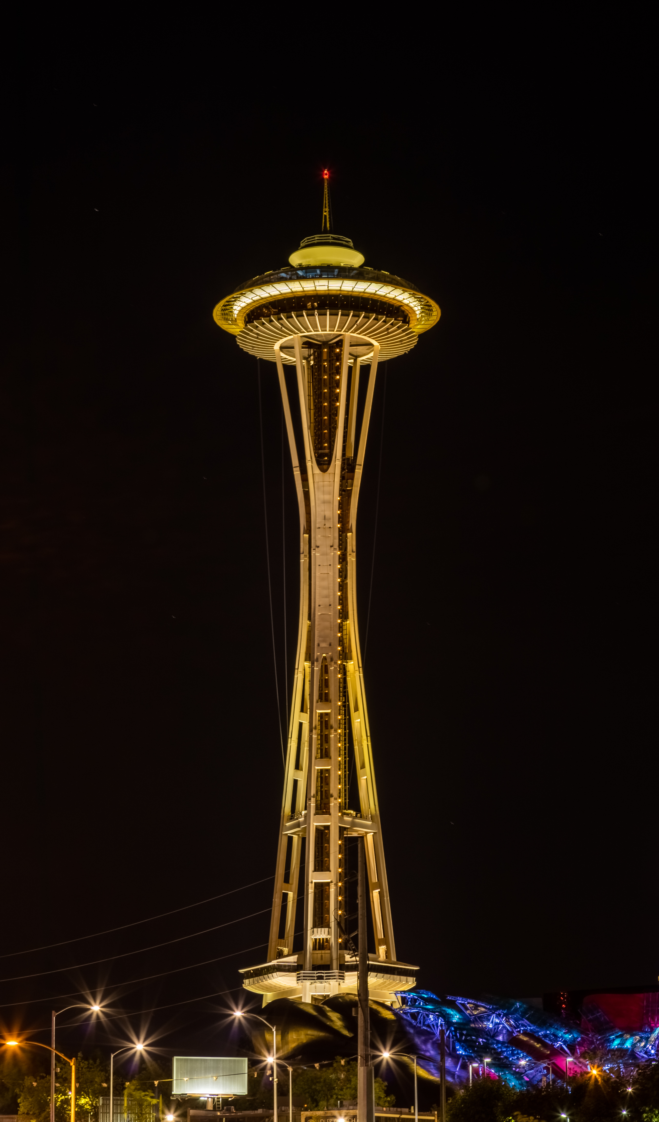 Space Needle, Seattle, Washington, USA